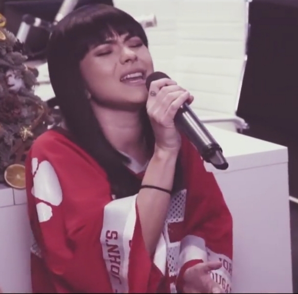 Inna performing "Nirvana" at Virgin Radio Romania